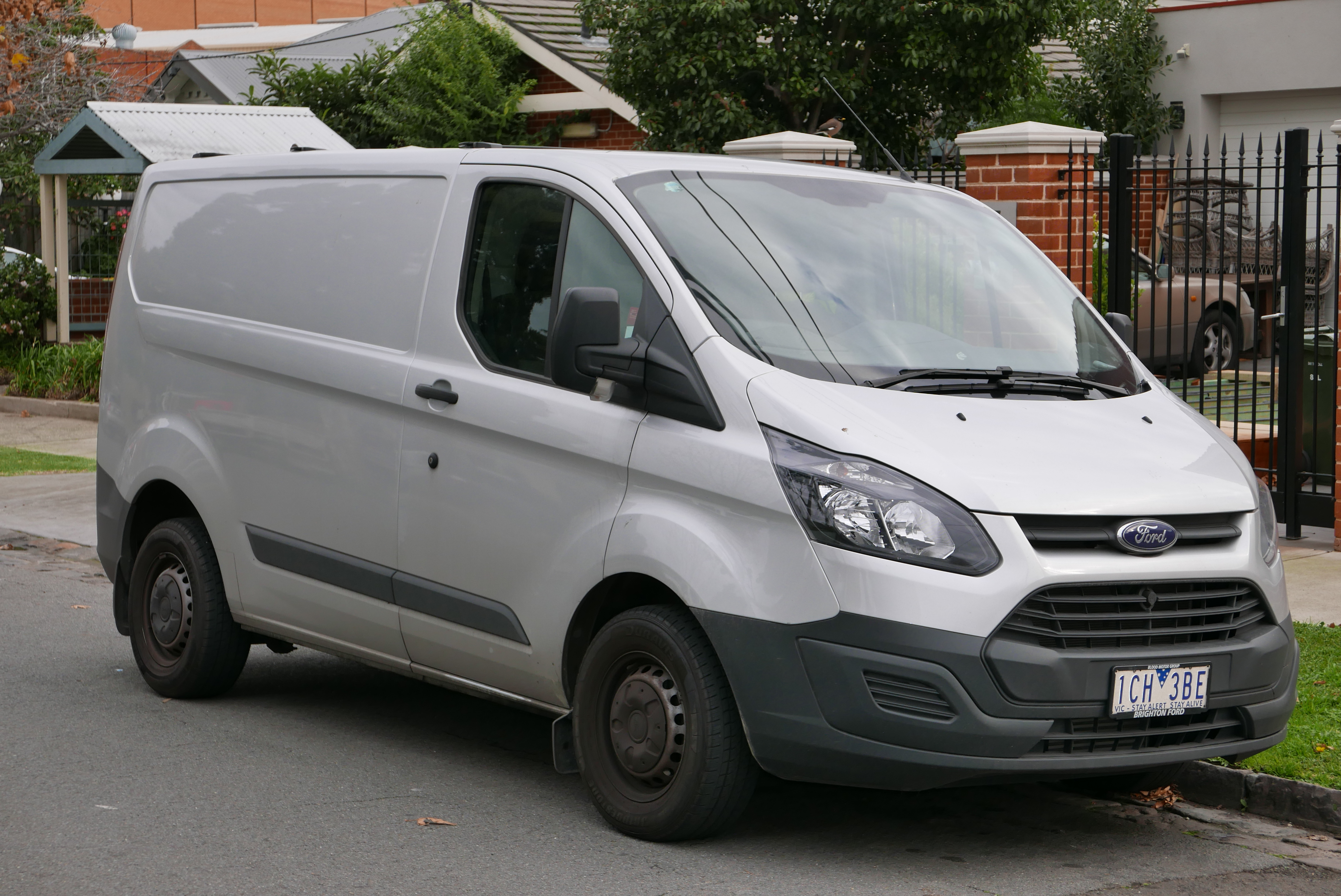 2014 Ford Transit Custom (VN) 290S van. Photographed in Alphington, Victoria, Australia. Vehicle registration enquiry resultsJurisdictionVictoriaRegistration1CH3BEChassis codeWF0YXXTTGYES75438Engine codeCYF4ES74538Compliance date2014-03Year of manufacture2014